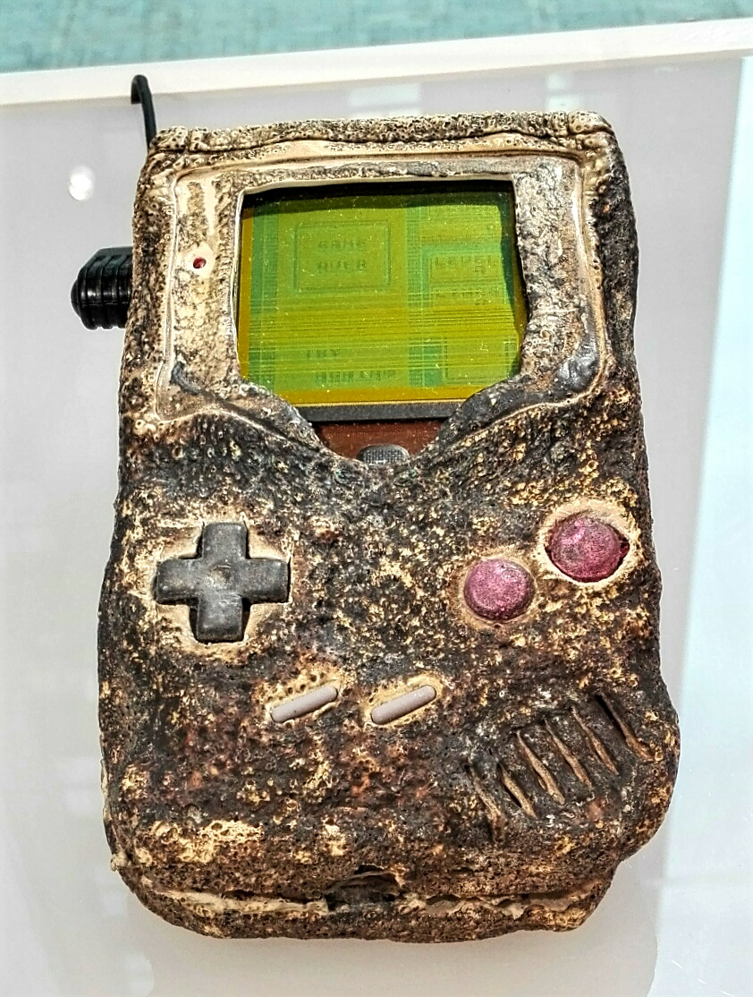 Game boy that survived a barracks bombing during the Gulf War and currently resides at the Nintendo World Store in NYC